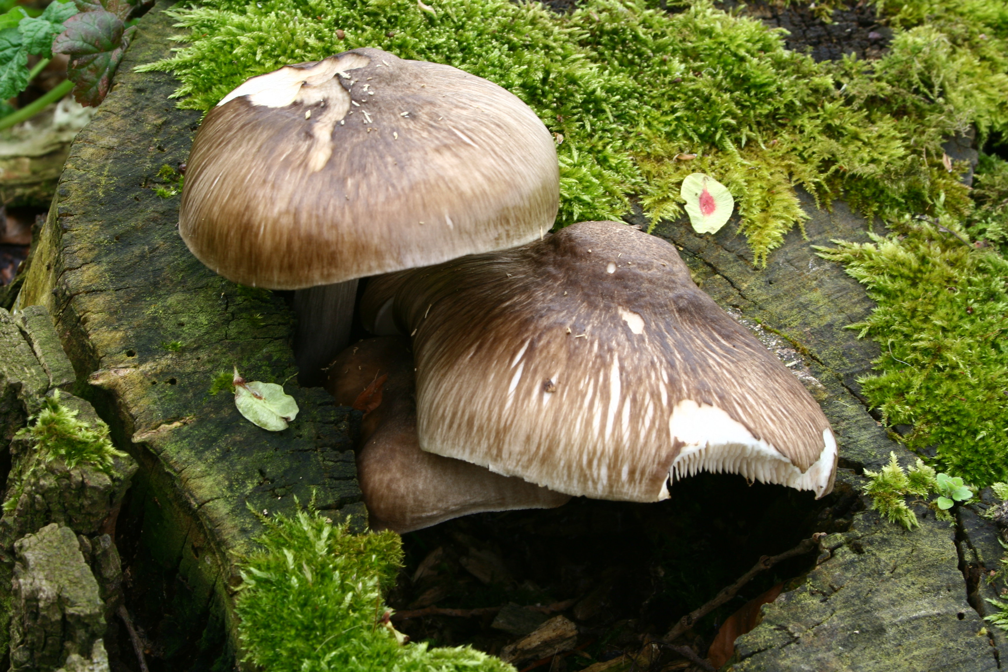 Pluteus cervinus in a park near Massy, France.